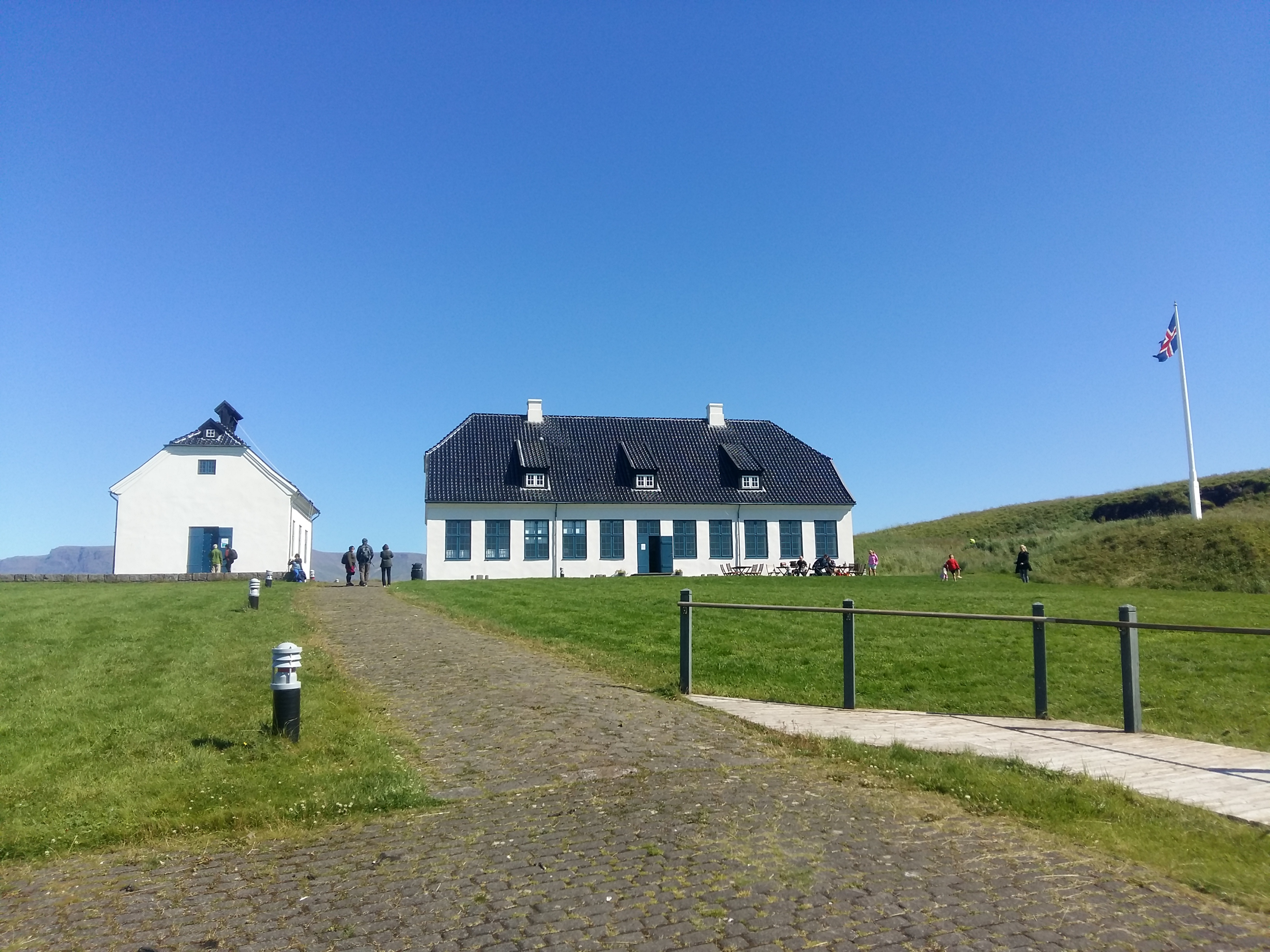 Viðeyjarkirkja (Viðey Church; on the left) and Viðeyjarstofa (Viðey House; on the right)